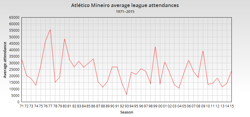 Atlético Mineiro average attendance chart.Sources:Médias de Público dos Principais Clubes no Campeonato Brasileiro. Rec.Sport.Soccer Statistics Foundation (17 December 2013).Série A 2011 - Attendance - Home matches. .Série A 2012 - Attendance - Home matches. .Série A 2013 - Attendance - Home matches. .Série A 2014 - Attendance - Home matches. . Campeonato Brasileiro 1971 - Clube Atlético Mineiro - Enciclopédia Galo Digital. Galo Digital.